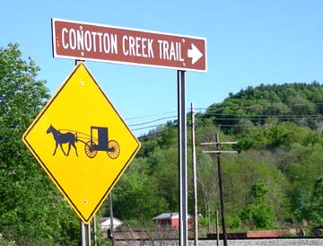 Richard Renner took this photo of the sign for the Conotton Creek Trail in Bowerston, Ohio, on 2006-05-20.